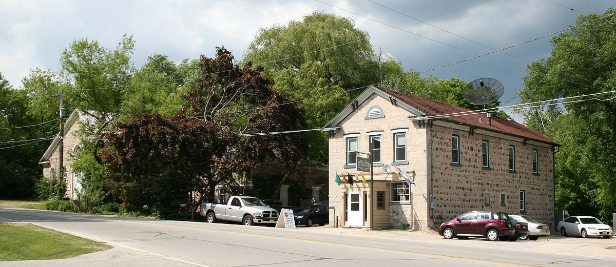 Hamilton Historic District, National Registered Historic Place, in the Town of Cedarburg, Wisconsin. Includes Turn Halle, 1867 meeting place and gymnasium of the Turners in Hamilton, on the far left.